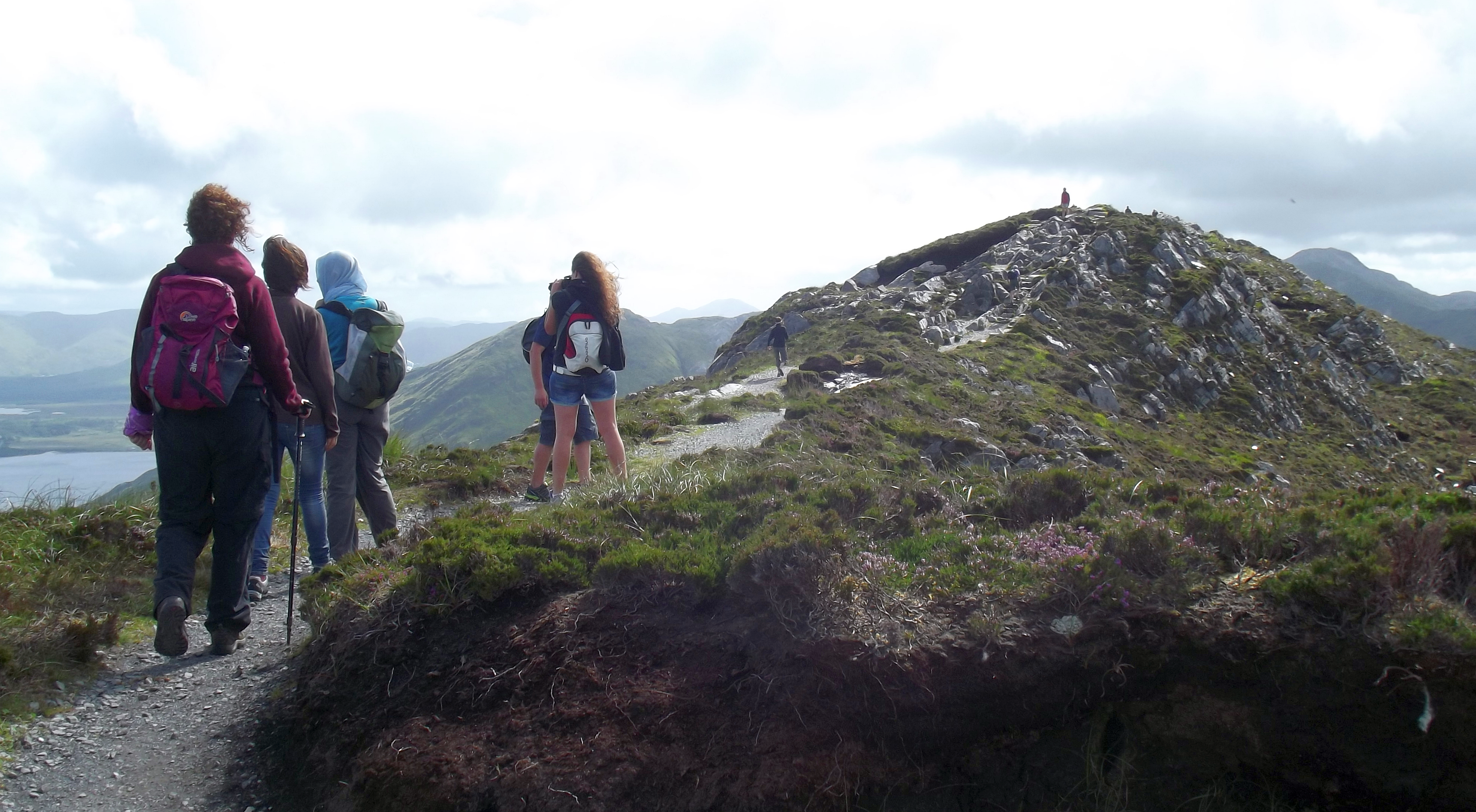 Diamond Hill - August 2013Gaeilge: Binn Ghuaire - Lúnasa 2013